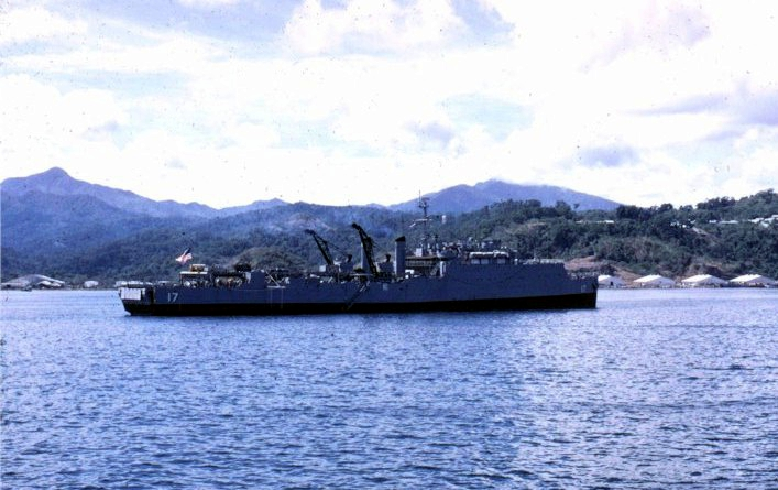 The U.S. Casa Grande-class dock landing ship USS Catamount (LSD-17) at Subic Bay, Philippines, in July 1967.